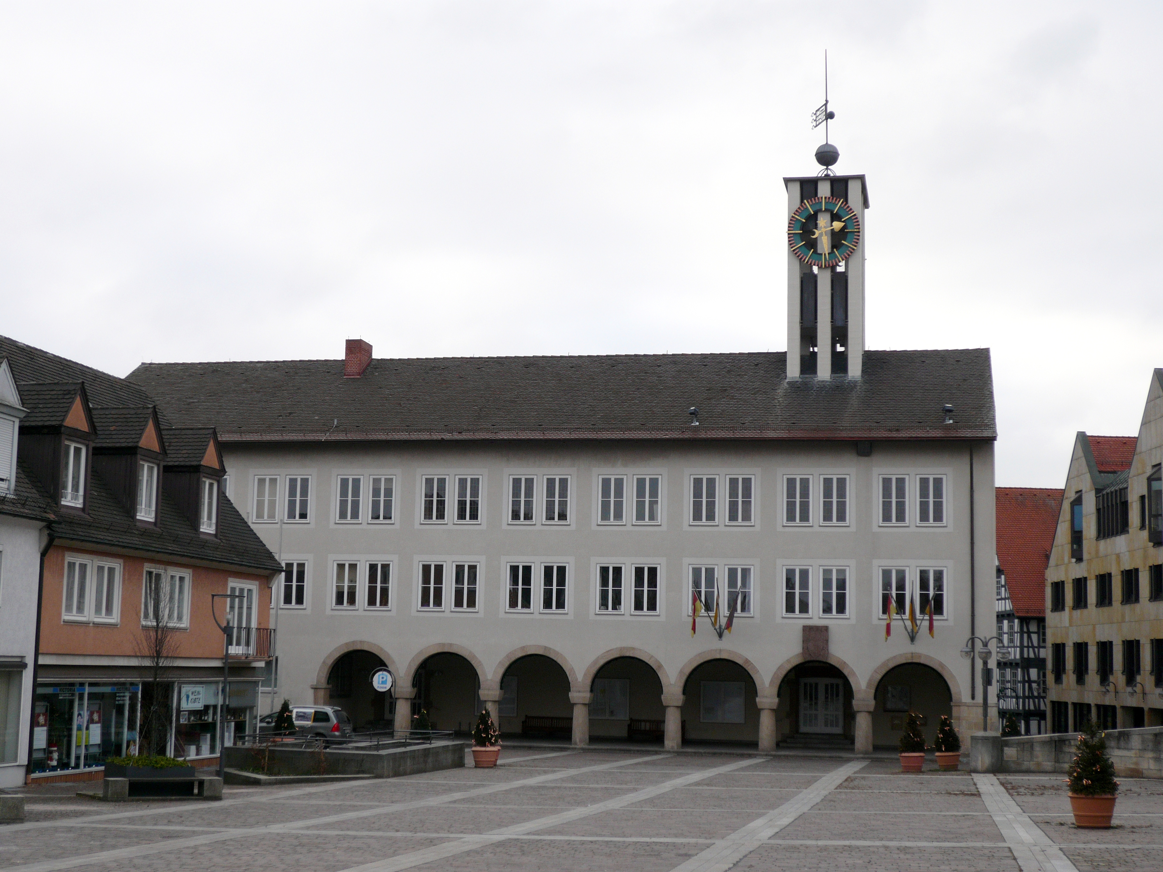 Town hall of Boeblingen